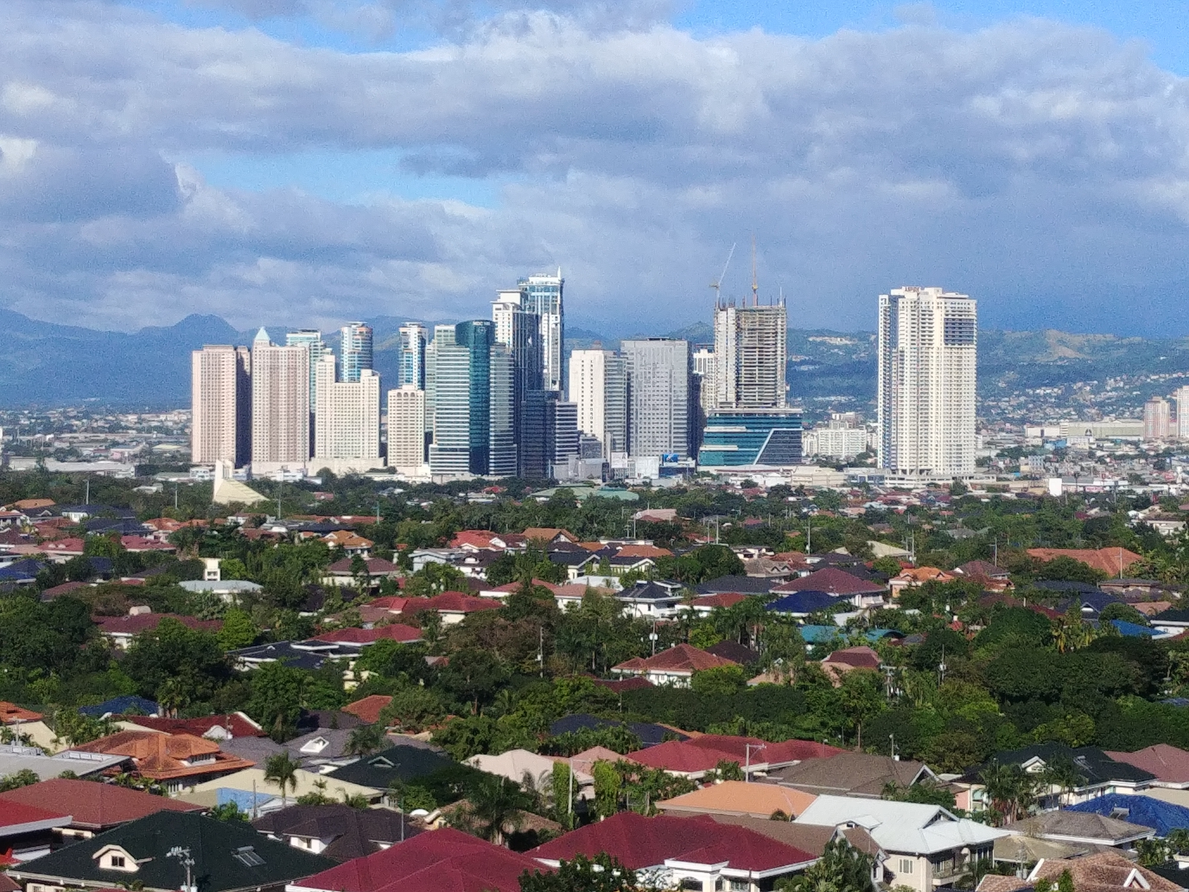 Skyline of Eastwood City in Libis, Quezon City taken from the 12th floor of the MERALCO Building along Ortigas Avenue, Mandaluyong.